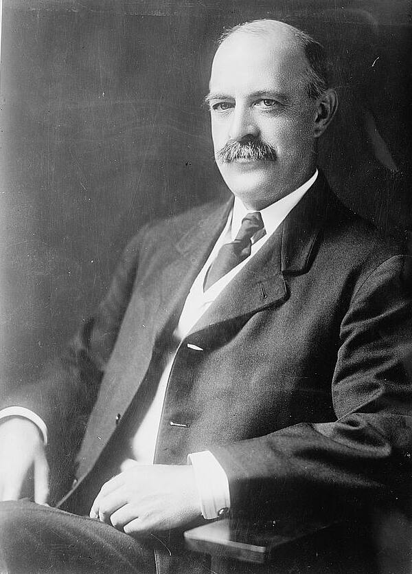 Bain News Service,, publisher. Charles Robert Miller circa 1913 [no date recorded on caption card] 1 negative : glass ; 5 x 7 in. or smaller. Notes: Title from unverified data provided by the Bain News Service on the negatives or caption cards. Forms part of: George Grantham Bain Collection (Library of Congress). Format: Glass negatives. Repository: Library of Congress, Prints and Photographs Division, Washington, D.C. 20540 USA, General information about the Bain Collection is available at Persistent URL: Call Number: LC-B2- 2598-13